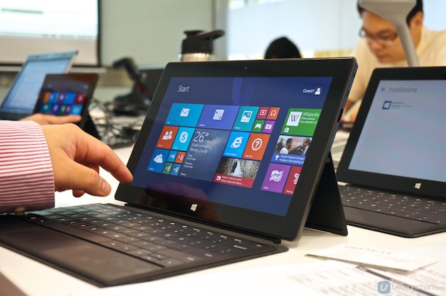 image of surface pro 2